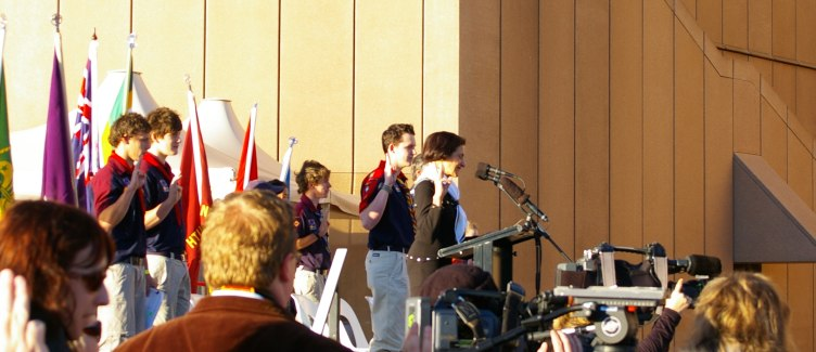 I made this digital image